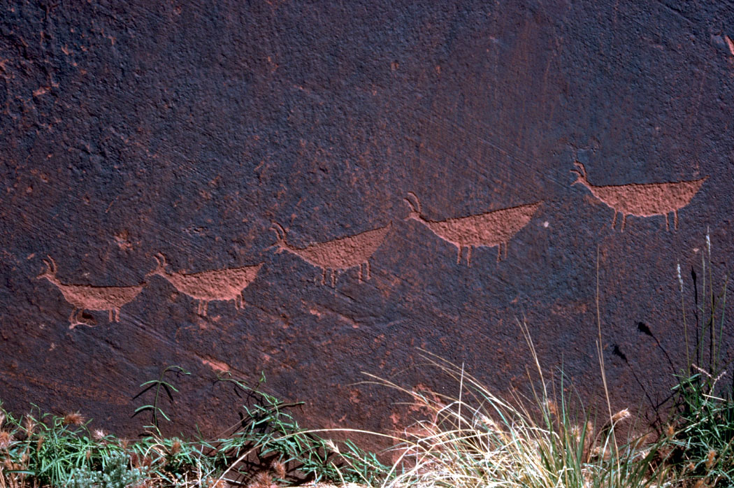 Petroglyphs Source: WO8093-004 Subject: Arizona, Glen Canyon, Natural areas